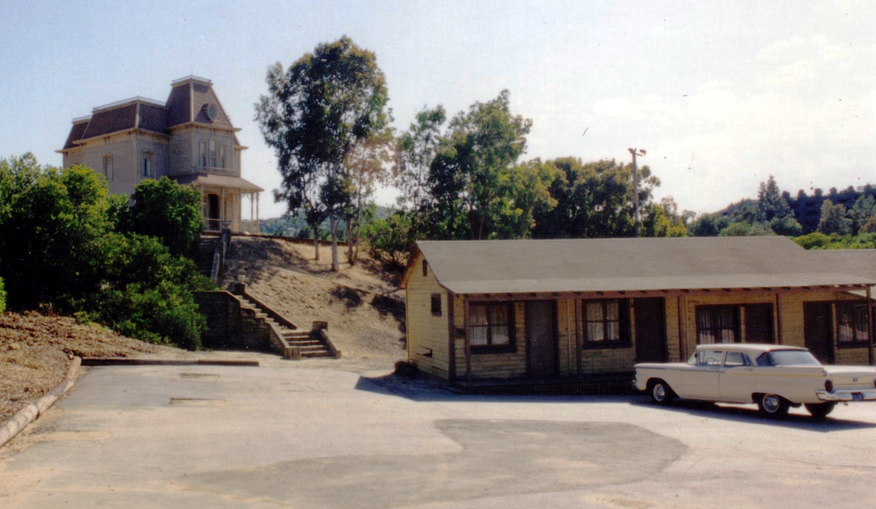 Bates Motel Set at Universal Studio Hollywood CA. Source: Taken by User:Ipsingh